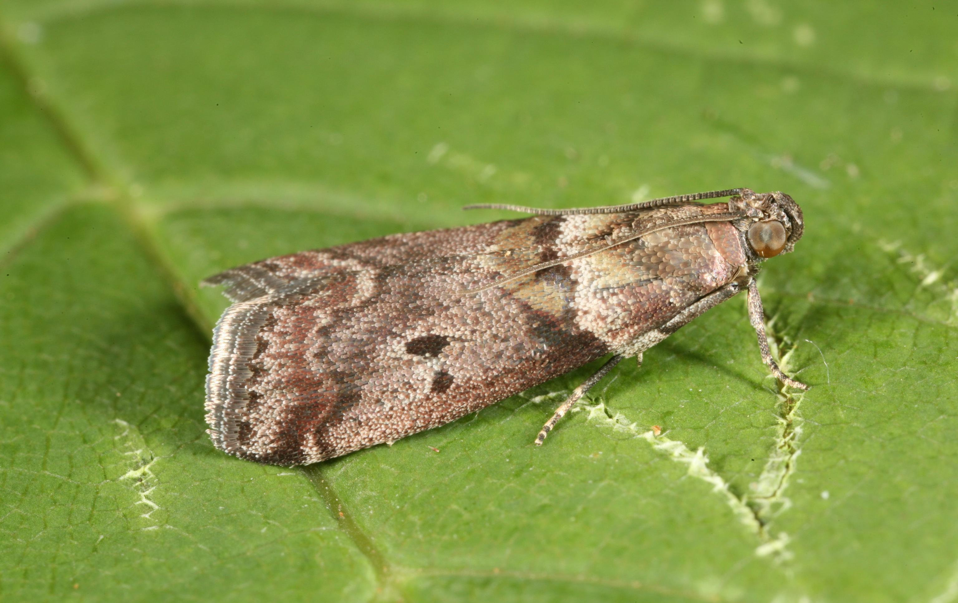 Acrobasis consociella Host: oak Quercus spp. L. Common Name: Pyralid moth Photographer: Gyorgy Csoka, Hungary Forest Research Institute, Hungary Descriptor: Adult(s) Image taken in: United States